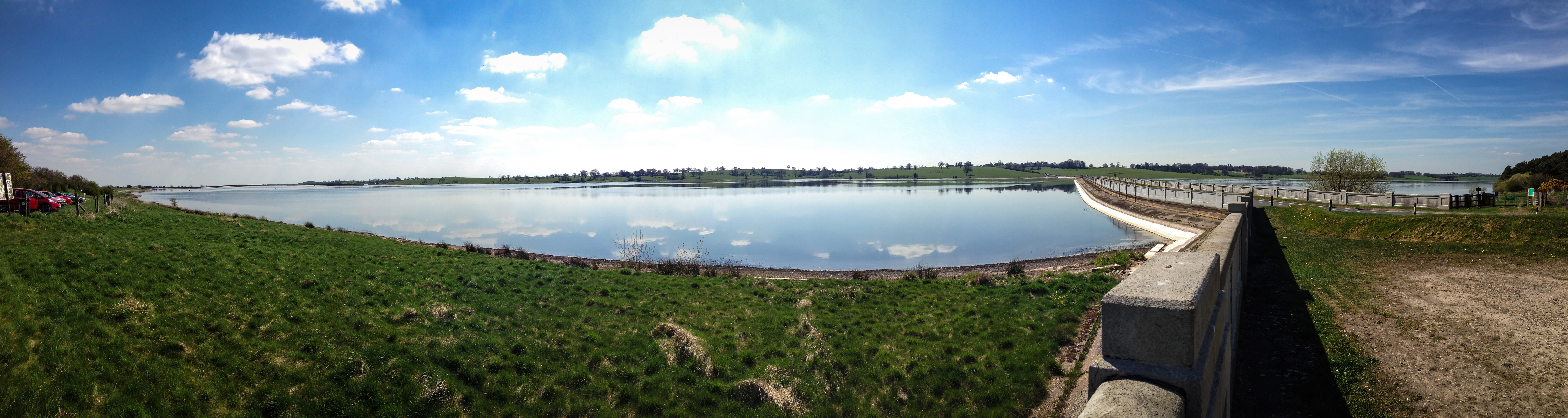 Blithfield Reservoir near Rugeley in Staffordshire on a perfect summer's day.